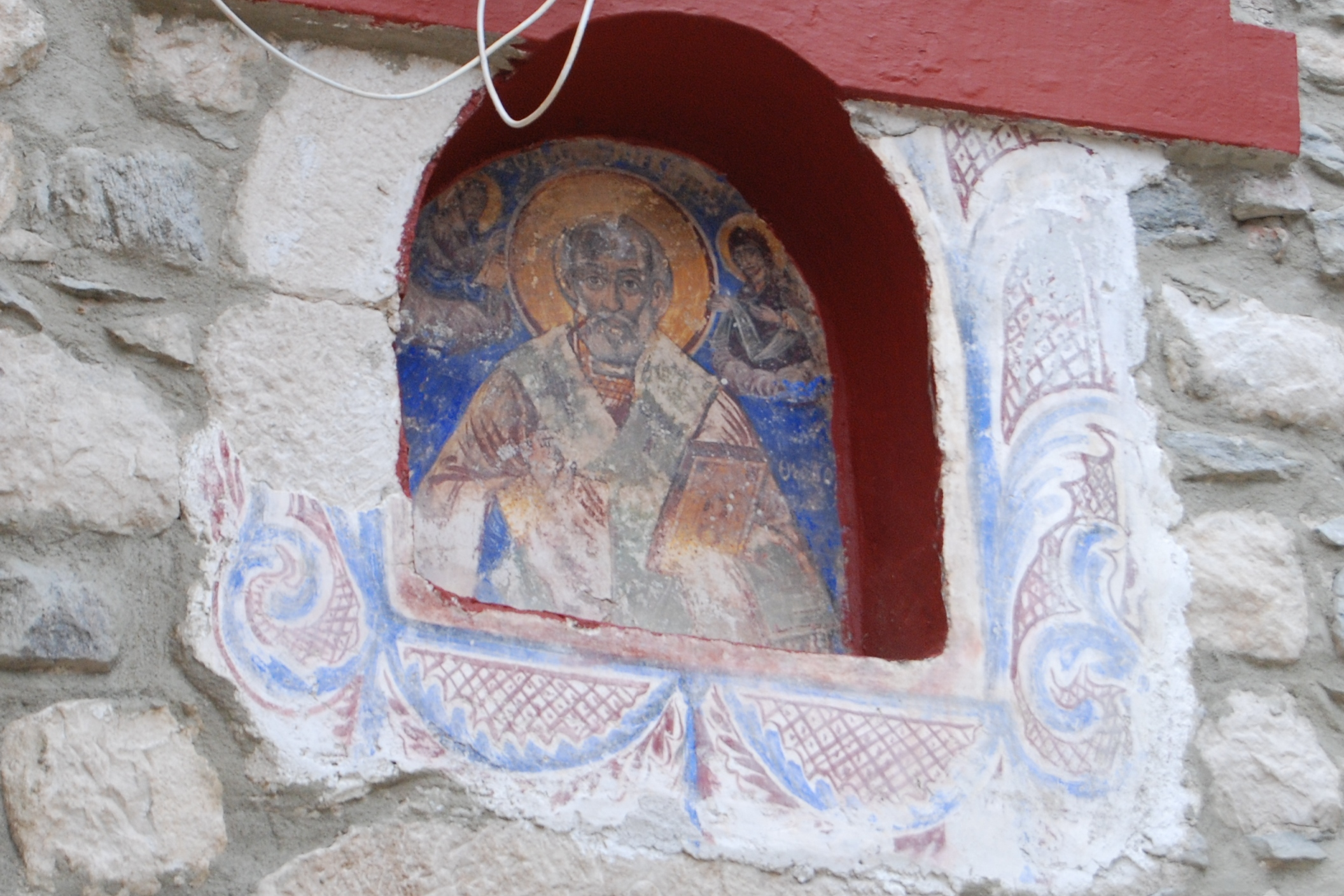 Church of Eleonas/Dutlija, Greece